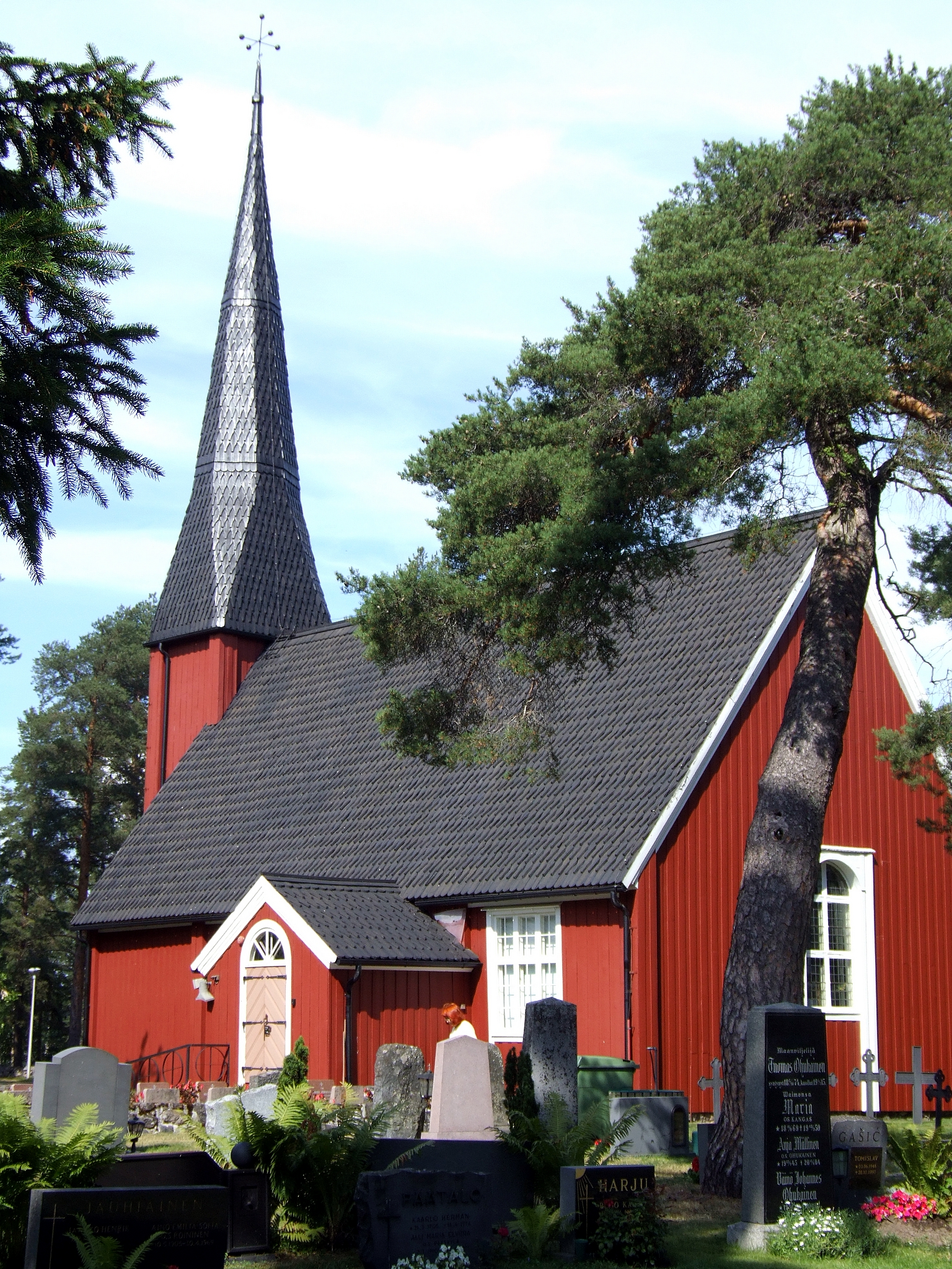 The Old wooden church in Kempele, Finland, was completed in 1691.